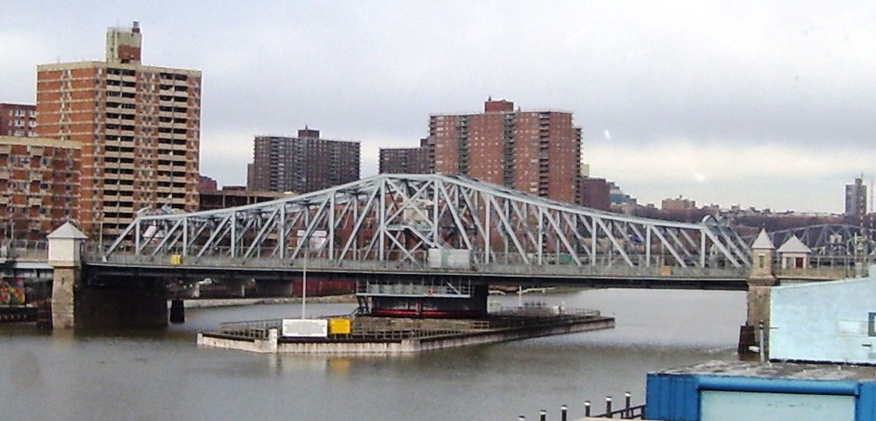 The Madison Avenue Bridge over the Harlem River in New York City carries Madison Avenue and E. 138th Street from Manhattan to the Bronx. This view is from within a Metro North Hudson line train cross the river.